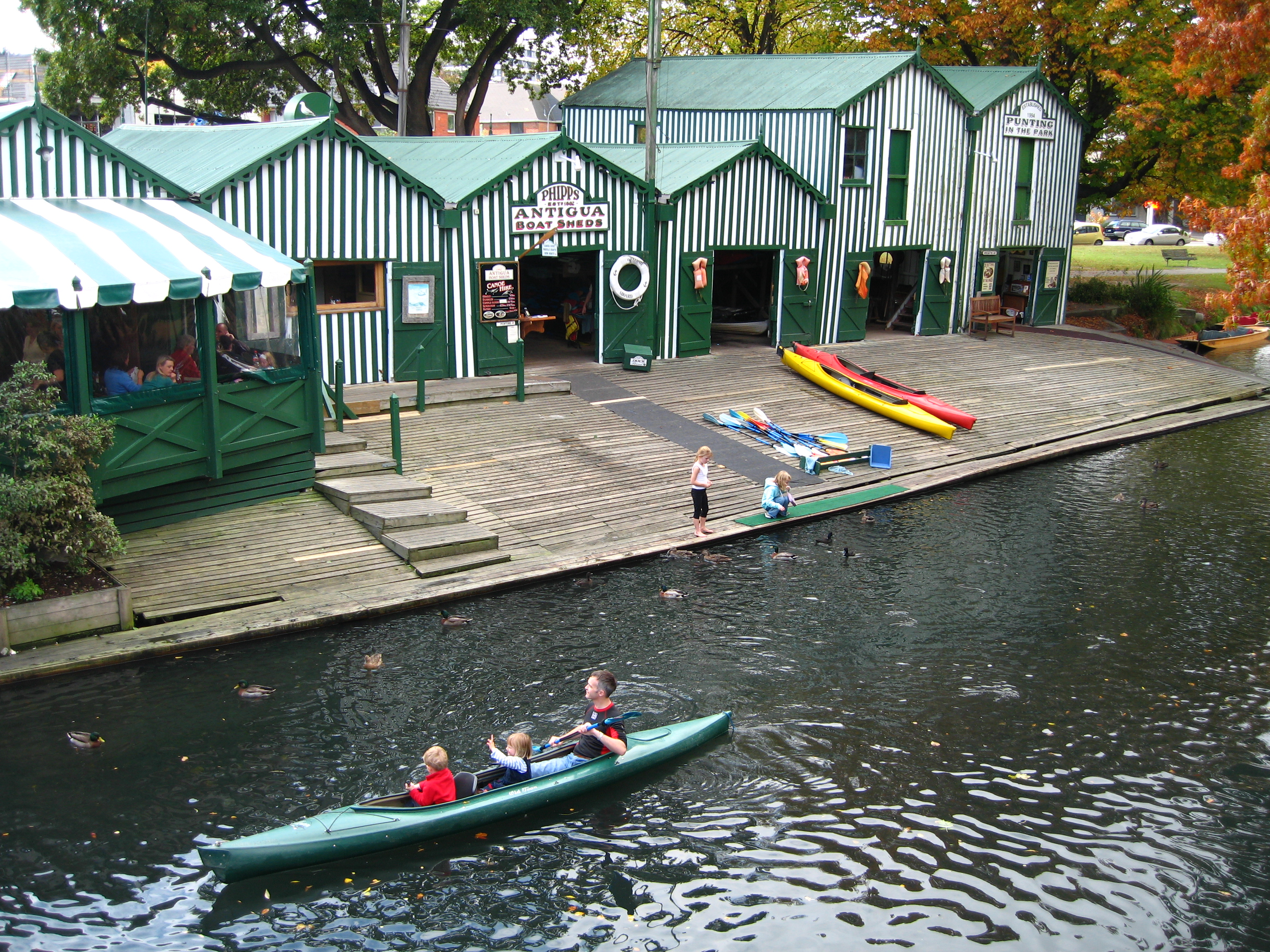 Canoing on the Avon River near Phipps Antigua Boat sheds, Christchurch, New Zealand. New Zealand Historic Places Trust Register number: 1825